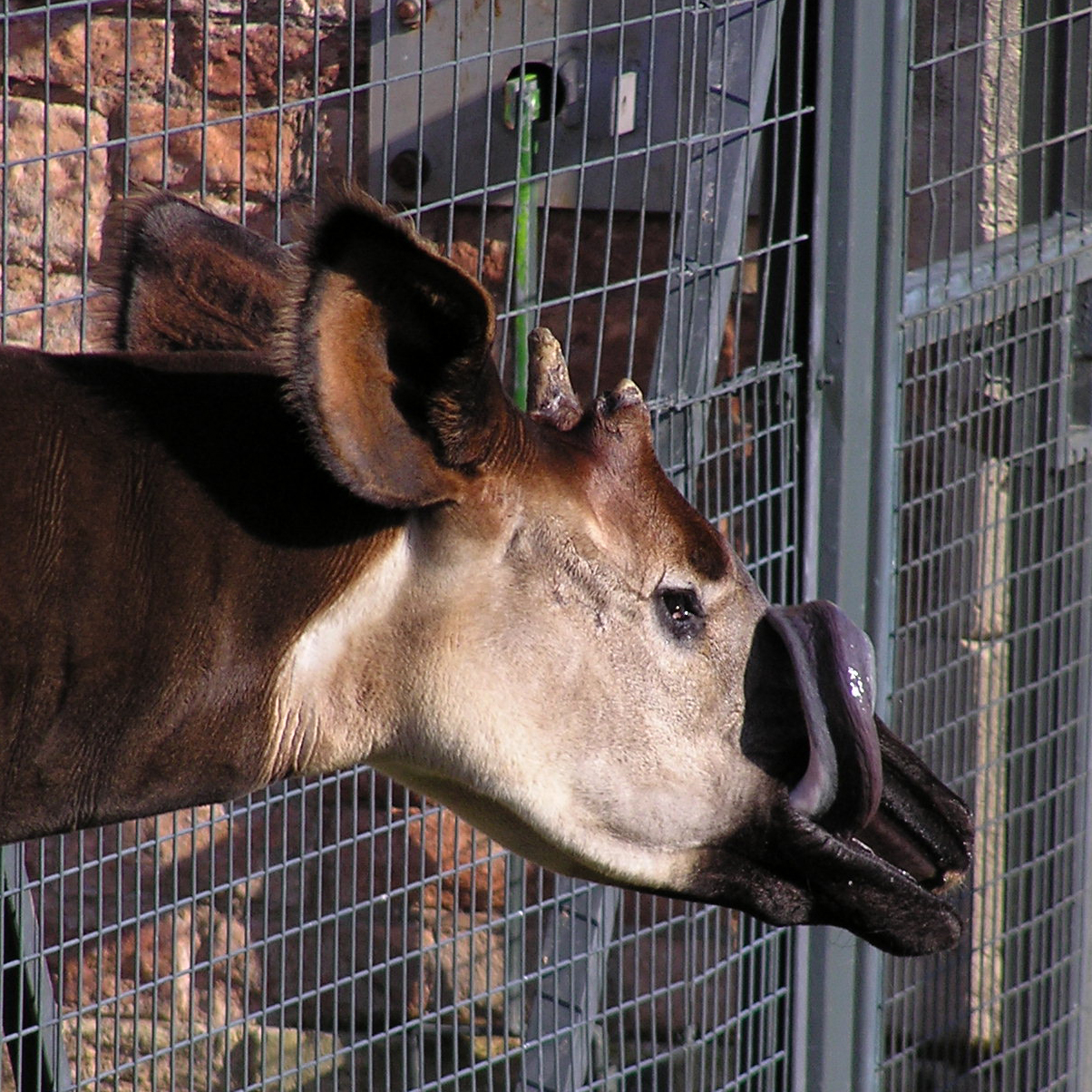 Male Okapi (Okapia johnstoni) at Bristol Zoo Gardens, Clifton, UK with tongue extended - apparently using it to scratch an itch!